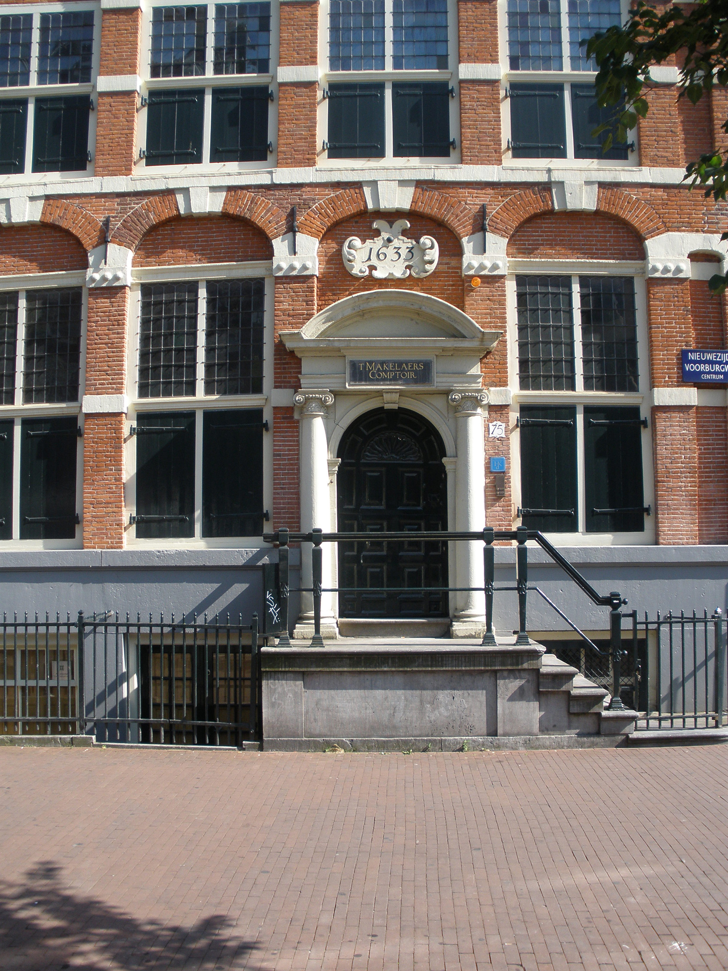 The Makelaers Comptoir guild house (1633) in Amsterdam, the Netherlands